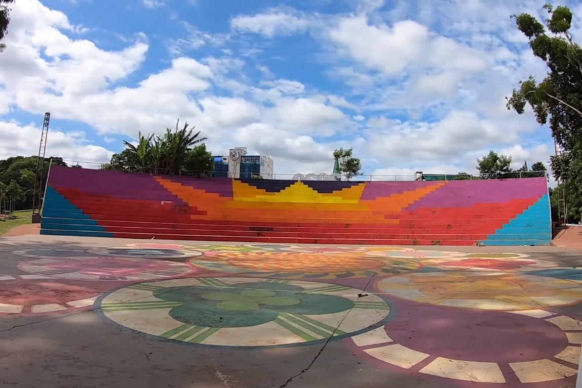 Amphitheater of Ciudad del Este, in the iconic Lake of Republic.